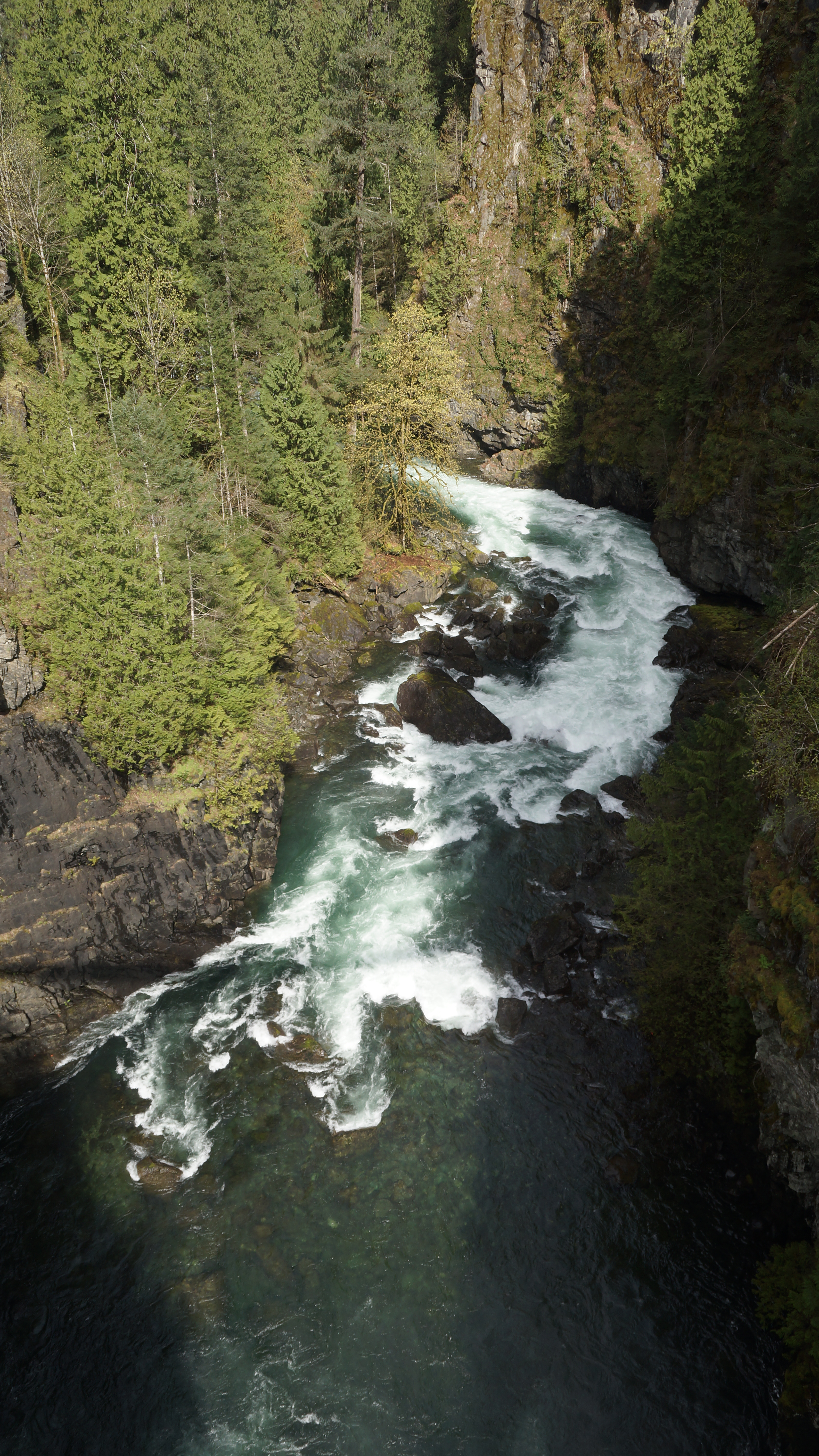 Elk falls provincial park, campbell river, vancouver island This photo was taken in a protected area in Canada, Wikidata item Elk Falls Provincial Park (Q1331394)